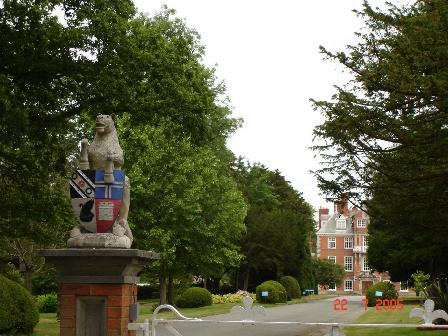 Bodrhyddan Hall. View of the hall from the main gate. Bodrhyddan Hall is situated midway between the villages of Rhuddlan and Dyserth